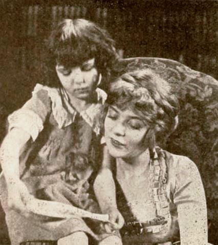 Still from the American mystery film The Girl in the Web (1920) with Peaches Jackson and Blanche Sweet, on page 46 of the August 21, 1920 Exhibitors Herald.